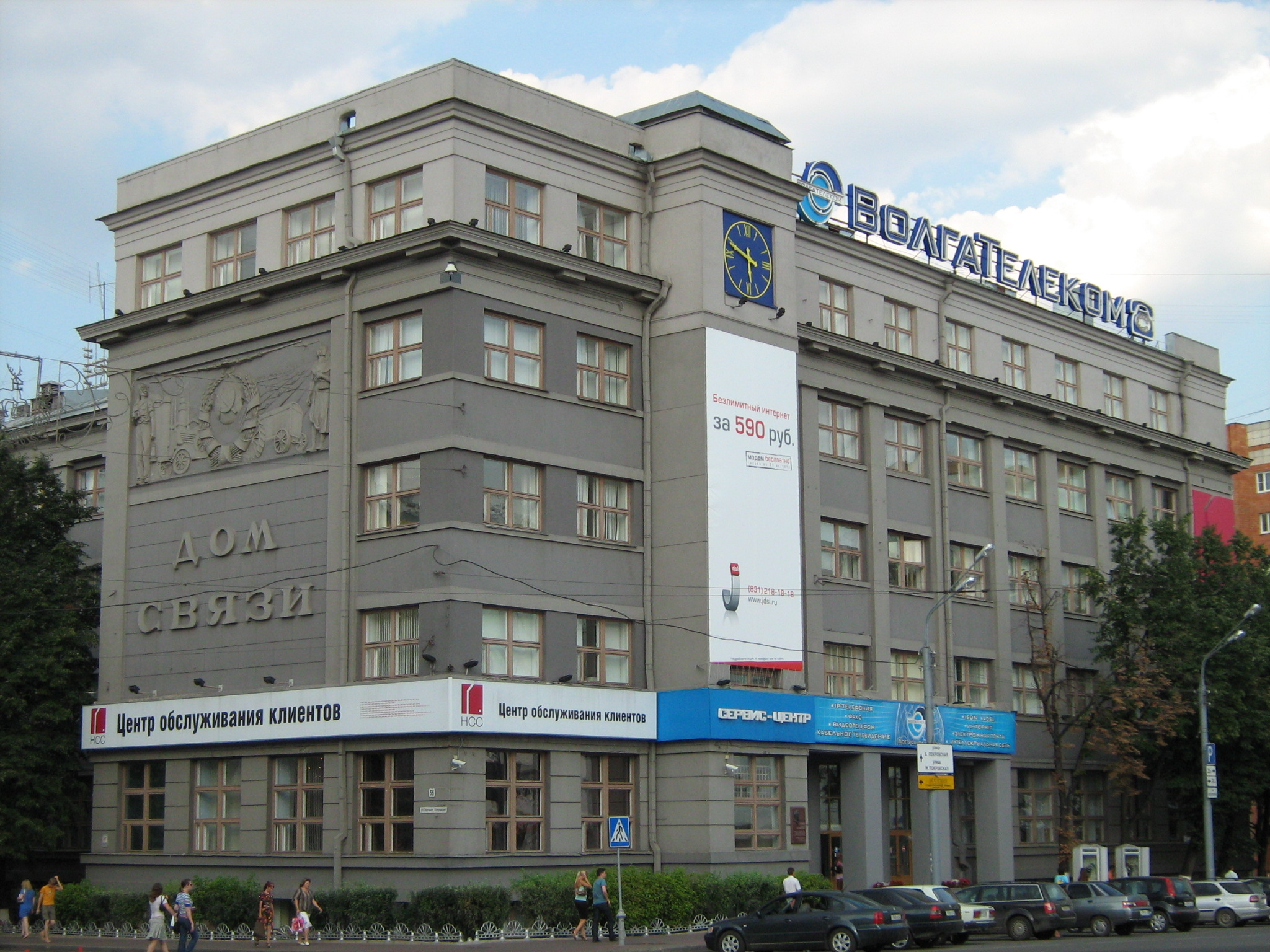 The main post/telephone/telegraph office in Nizhny Novgorod. The 1930s building, located at the corner of Bolshaya Pokrovskaya St and Gorky Square, sports an early (1923-1936) version of the USSR coat of arms, with the text in just 6 languages.